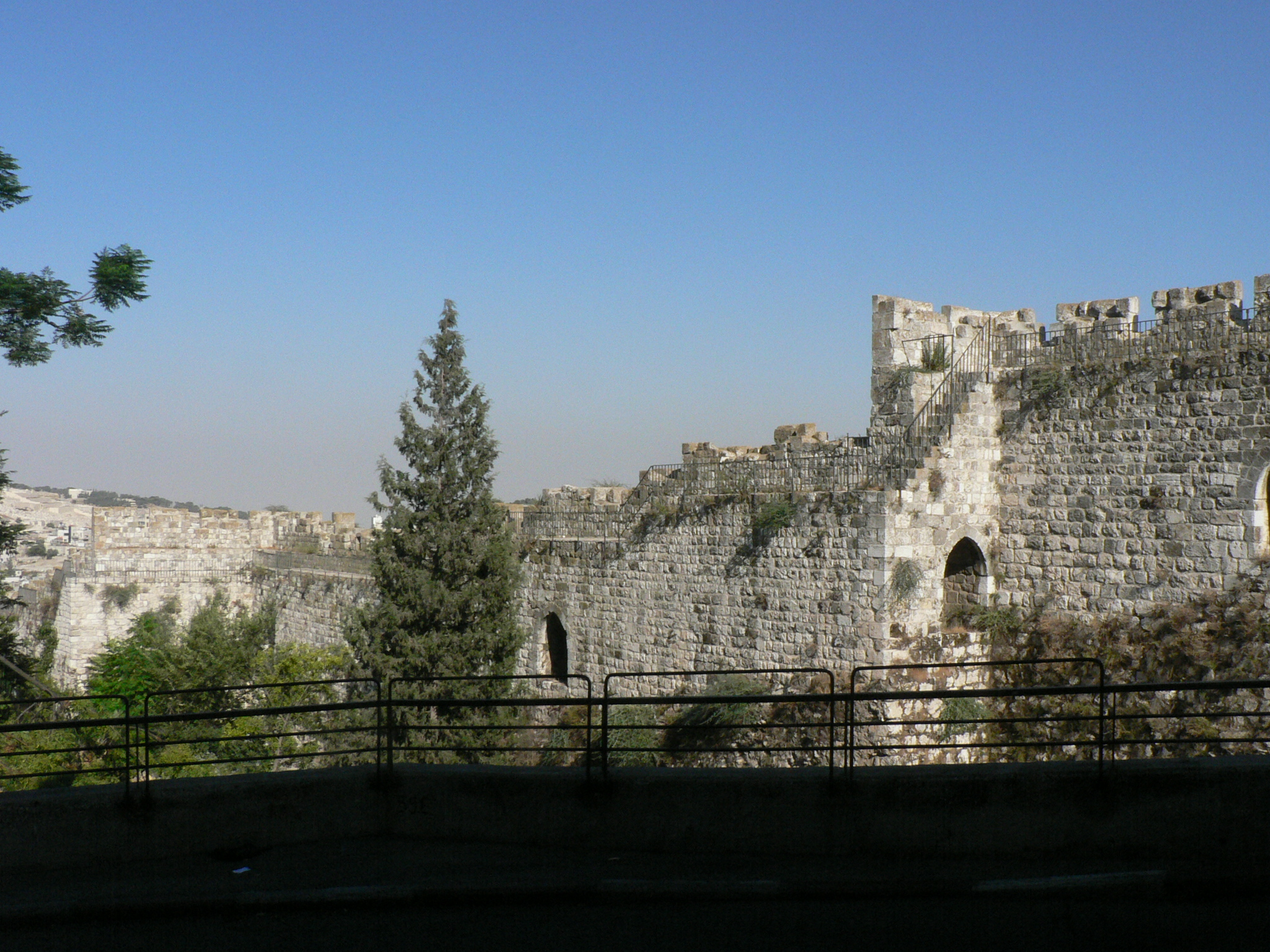 Jerusalem Old City Walls, downwards to Shaar Aashpot